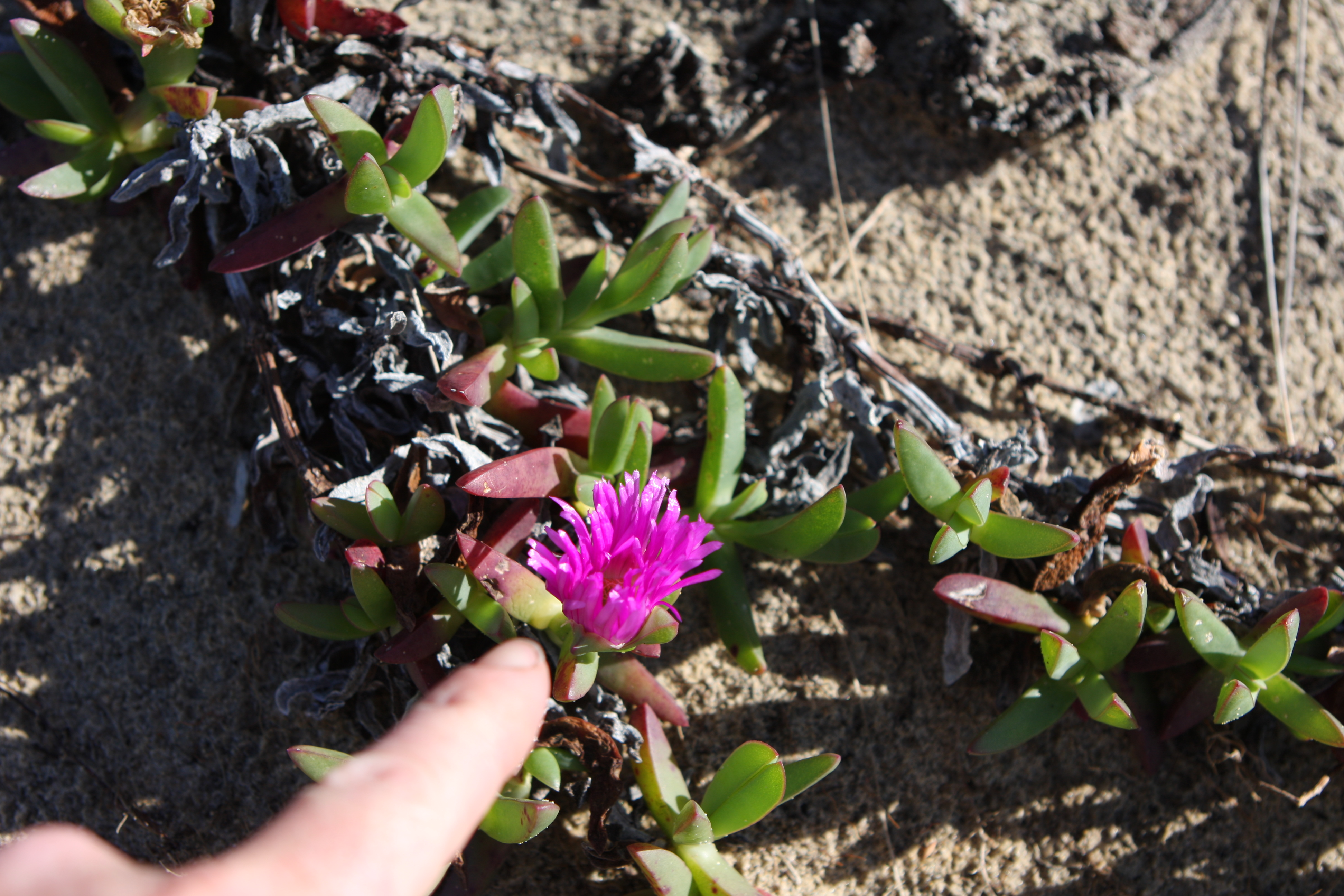 Carpobrotus rossii Common Ice Plant (also known as pigface) "Known botanically as the Aizoaceae (Latin for ?evergreen? or ?ever living?, the name reflects the ability of members to maintain green coverage of fleshy foliage whilst existing in the harshest and driest environments." source WARMING TO THE ICE PLANTS by Phil Watson Seen on a morning beach walk on the Freycinet Peninsula, Tasmania, Australia Australia oz2009 759